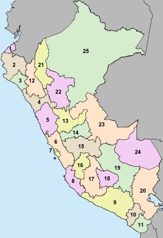 Map of the Regions of Peru Created by Tuomas Carrasco - Jan. 2005